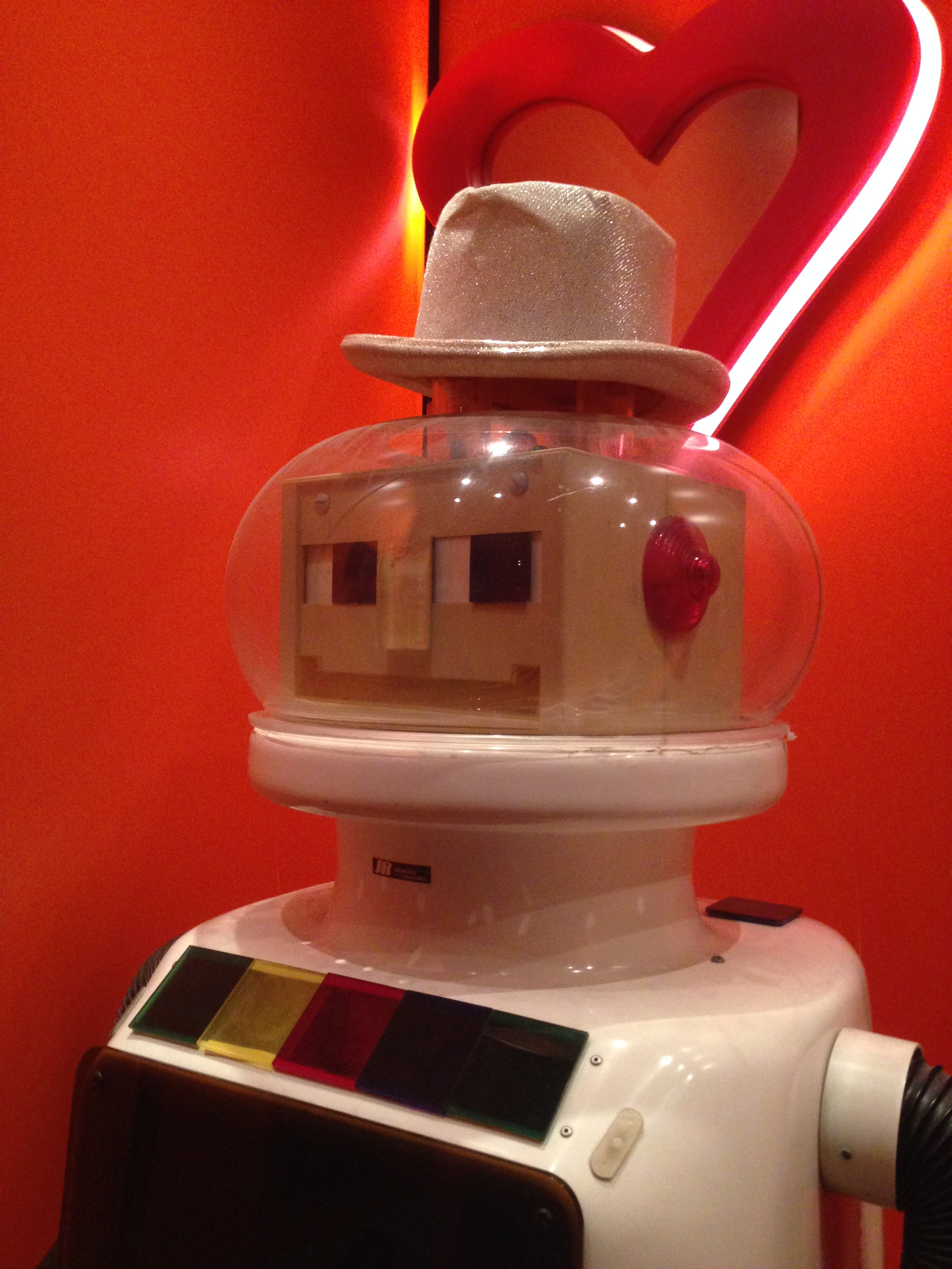 Dexter, the robot co-host of the first series of the Australian television game show Perfect Match. Dexter would calculate a compatibility rating for the participants in the show hoping to find their "perfect match". The prop is in the "Screen Worlds" exhibition at the Australian Centre for the Moving Image (ACMI) in Melbourne, Australia.